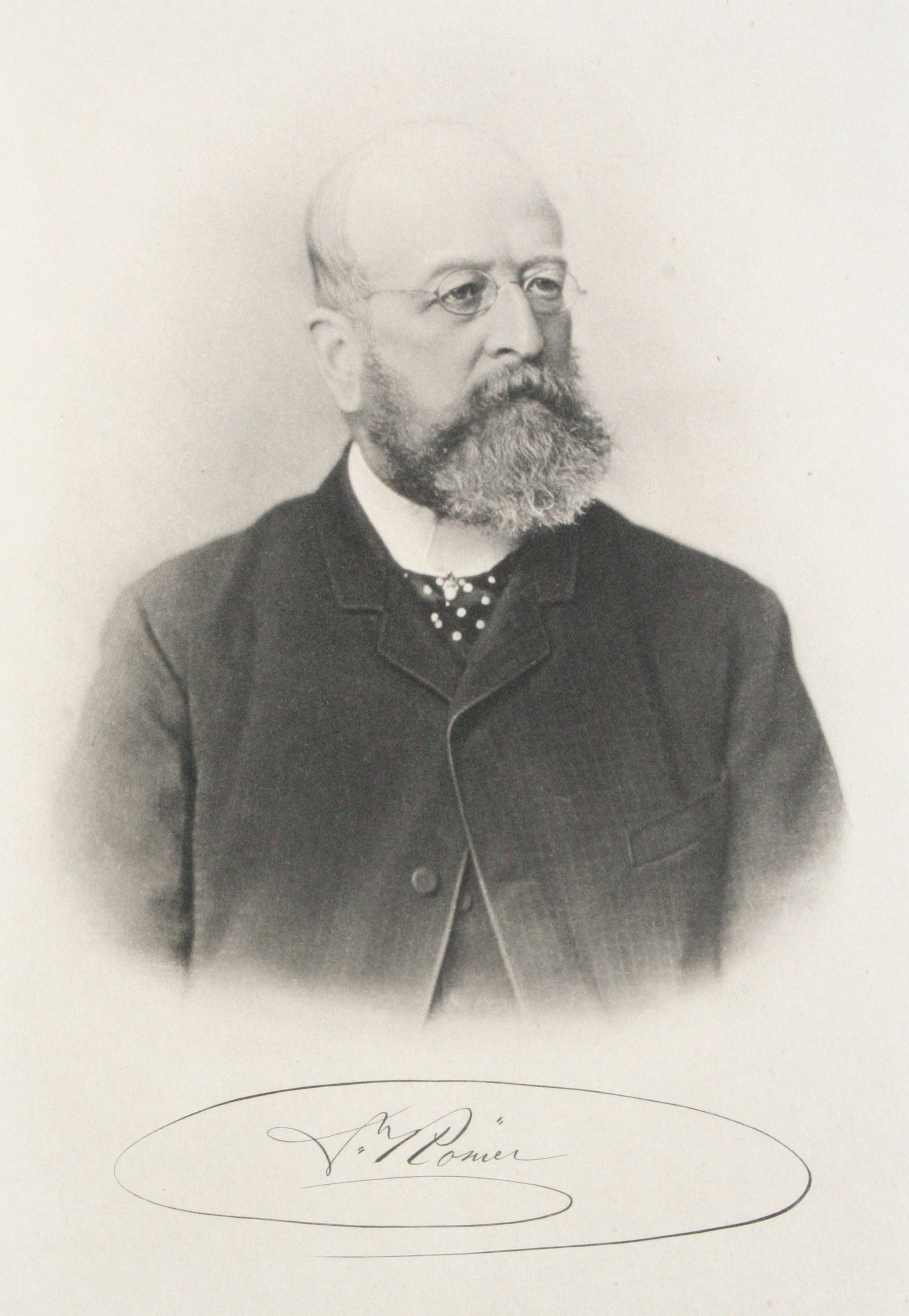 Melchior Römer